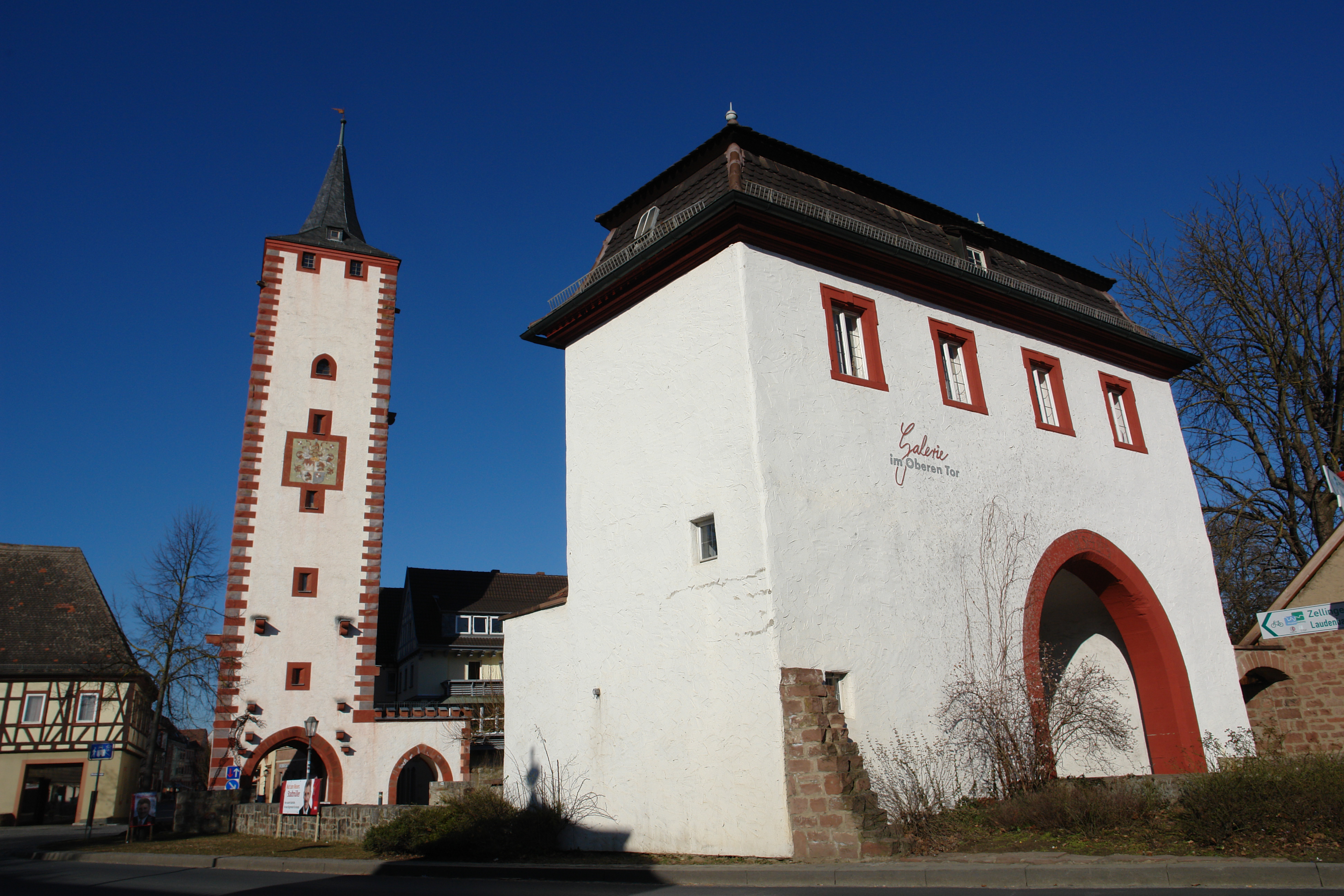 Old city gate of Karlstadt